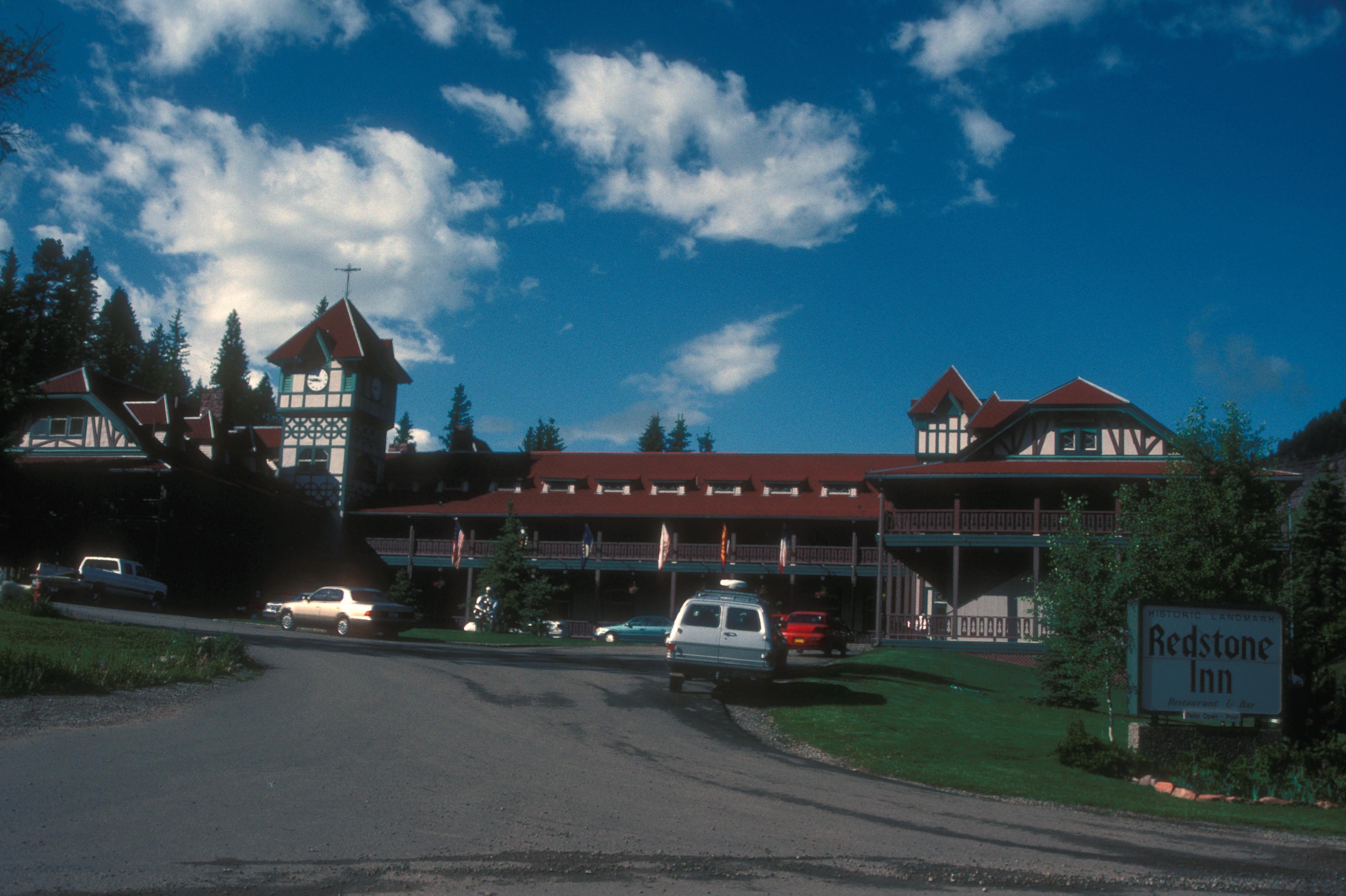 BUILT BY JOHN C. OSGOOD AS A LODGING FOR MINERS AND VISITORS IN 1884; OSGOOD FOUNDED THE COLORADO FUEL COMPANY TO MINE THE EXTENSIVE COAL DEPOSITS IN THE AREA; HE PAID HIS MINERS GOOD WAGES AND BUILT GOOD HOMES FOR THEM